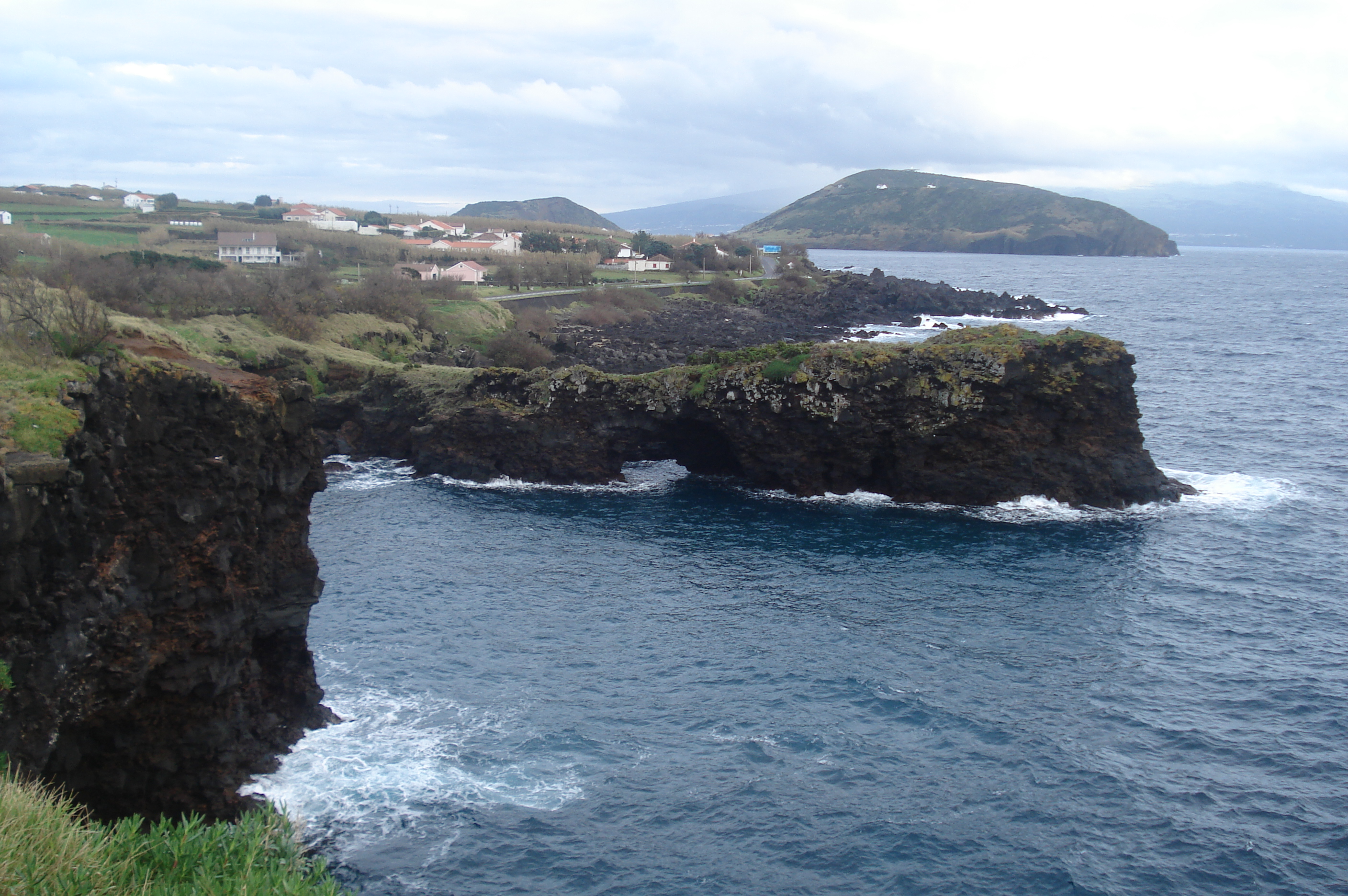 The southern coast of Feteira, with Pico Island in the distance, Horta, Faial Island, Azores